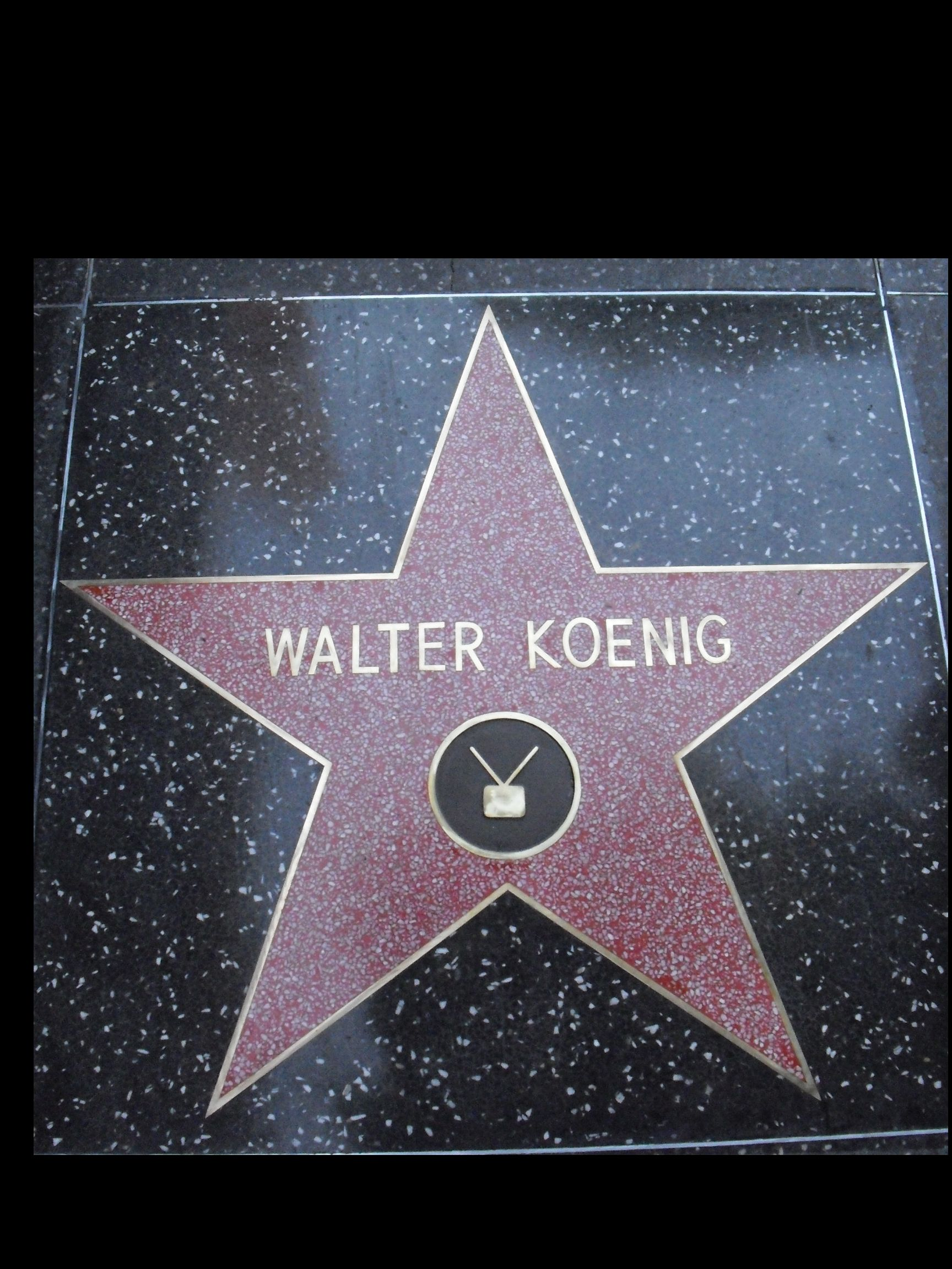 Walter Koenigs Star on the Hollywood Walk of Fame